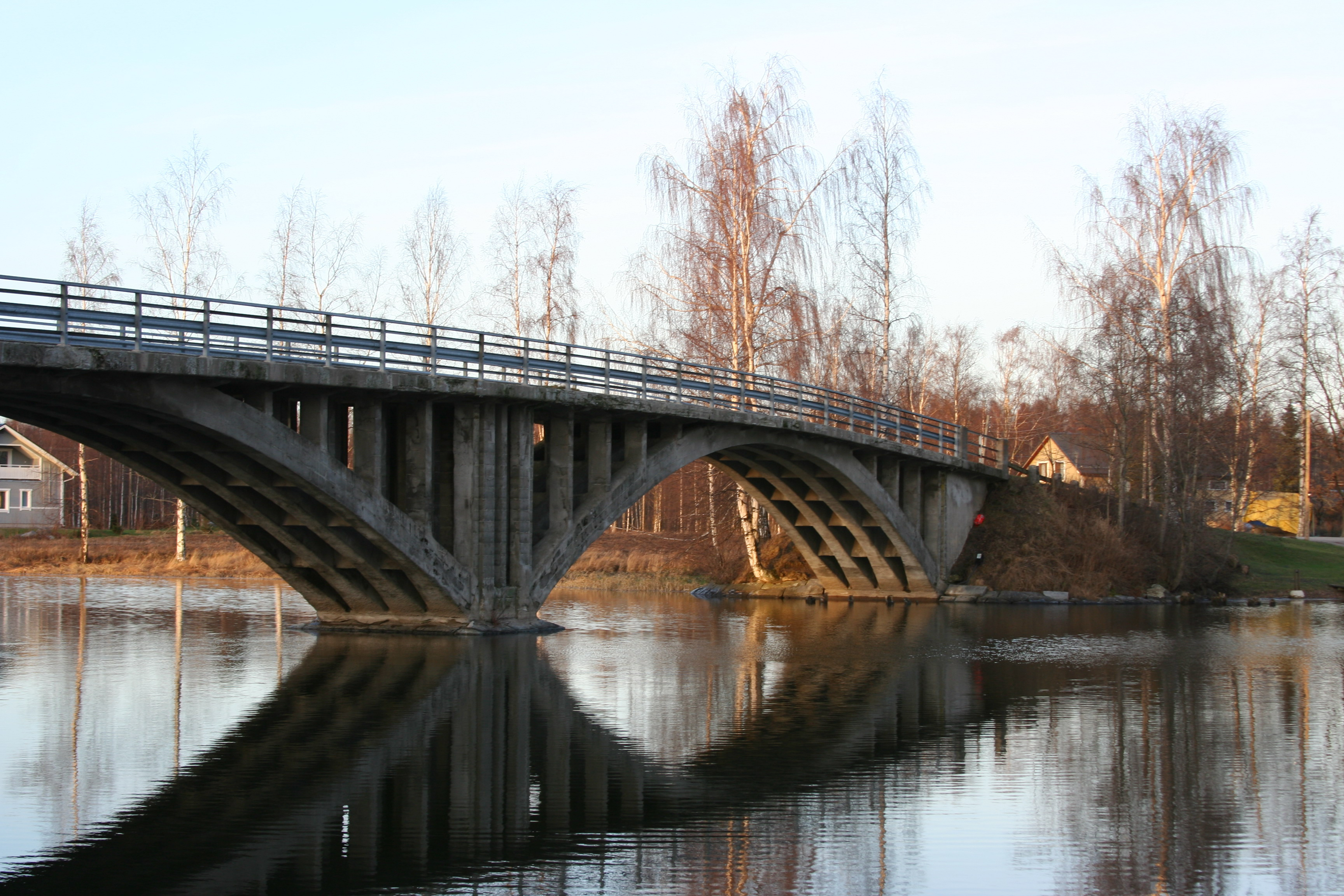 Alvettula museum bridge, Alvettula, Hauho, Hämeenlinna, Finland. Bridge is made of hollow concrete building-blocs. Completed in 1916.